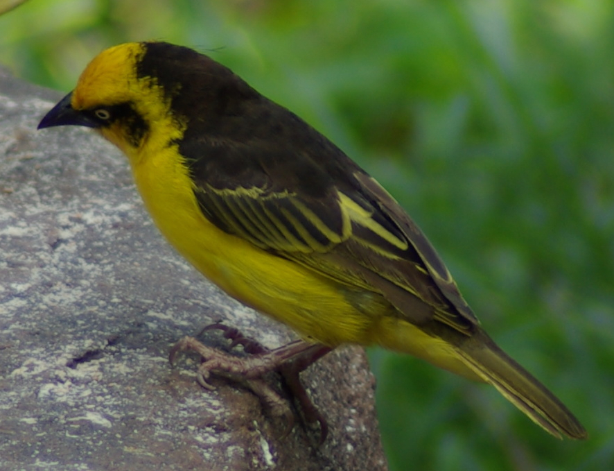 Male Baglafecht Weaver (or Reichenow's Weaver), Ploceus baglafecht rechenowi, at a feeder at the Mara Serena Lodge, Kenya. Cropped from Image:Ploceus baglafecht and cucullatus.jpg. The time stamp is 10 hours too early.